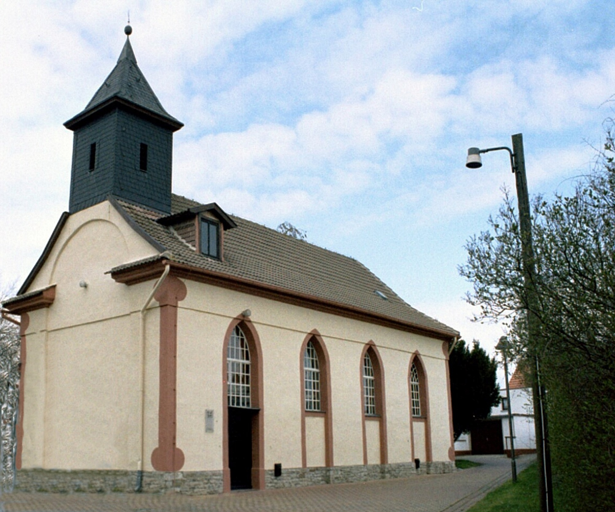 Benndorf, the church St.Katharina